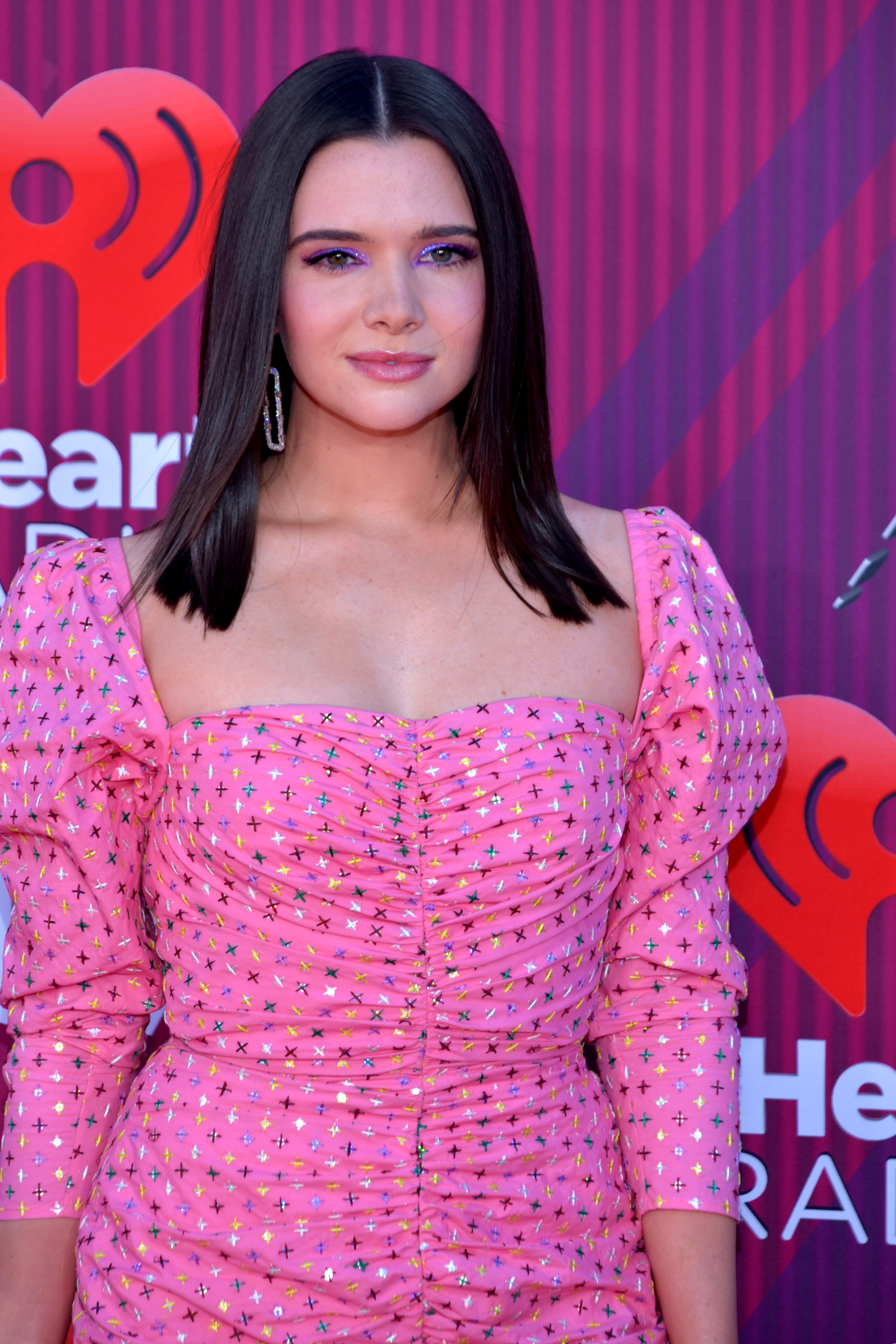 Katie Stevens at the 2019 iHeartRadio Music Awards in Los Angeles California on March 14, 2019 - Photo by Glenn Francis of